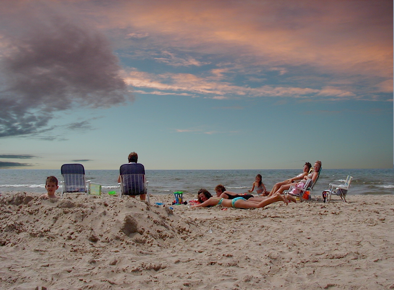 The beach at Crystal Beach Hill Photo taken August 2, 2005 of the beach in front of the cottages at Crystal Beach Hill, Ontario by myself, Angelo F. Coniglio.SugnuSicilianu 2:09 PM, 10 December, 2008 (UTC)